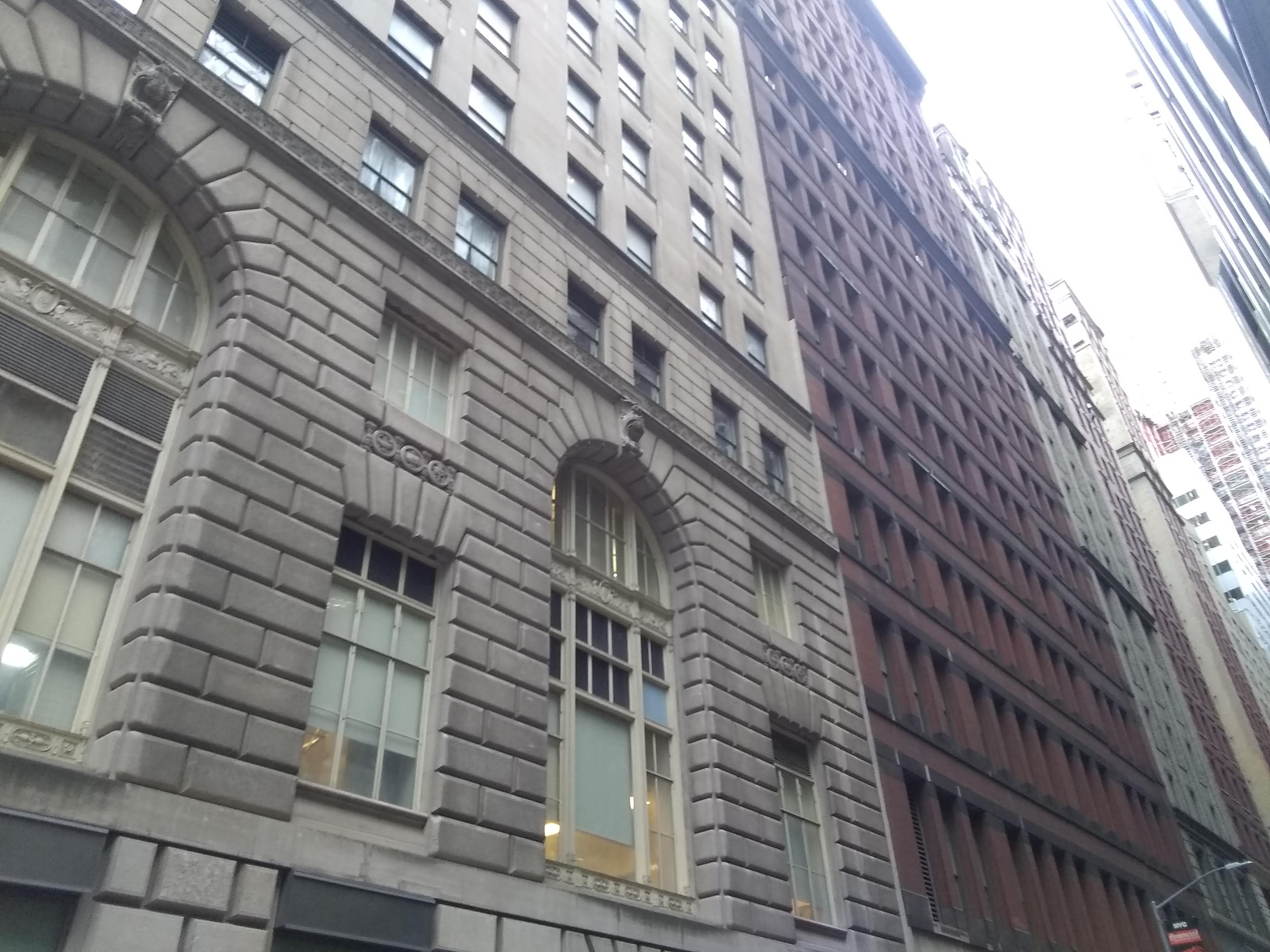 Buildings around Bowling Green, Manhattan, New York